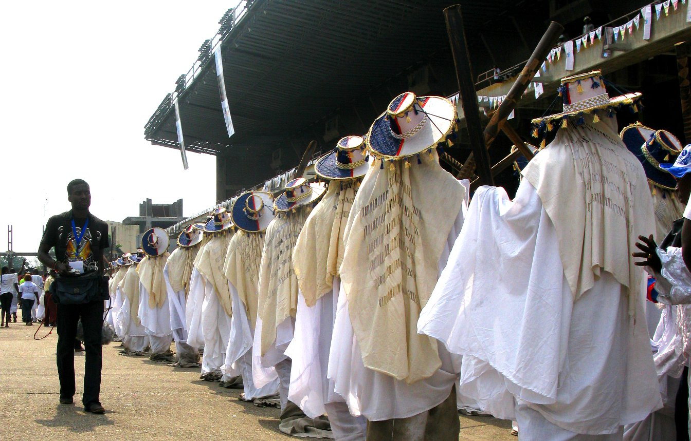 Masquerades of the Eyo Iga Faji parading in the Teslim Balogun Stadium in Lagos in procession, as part of the Eyo festival.